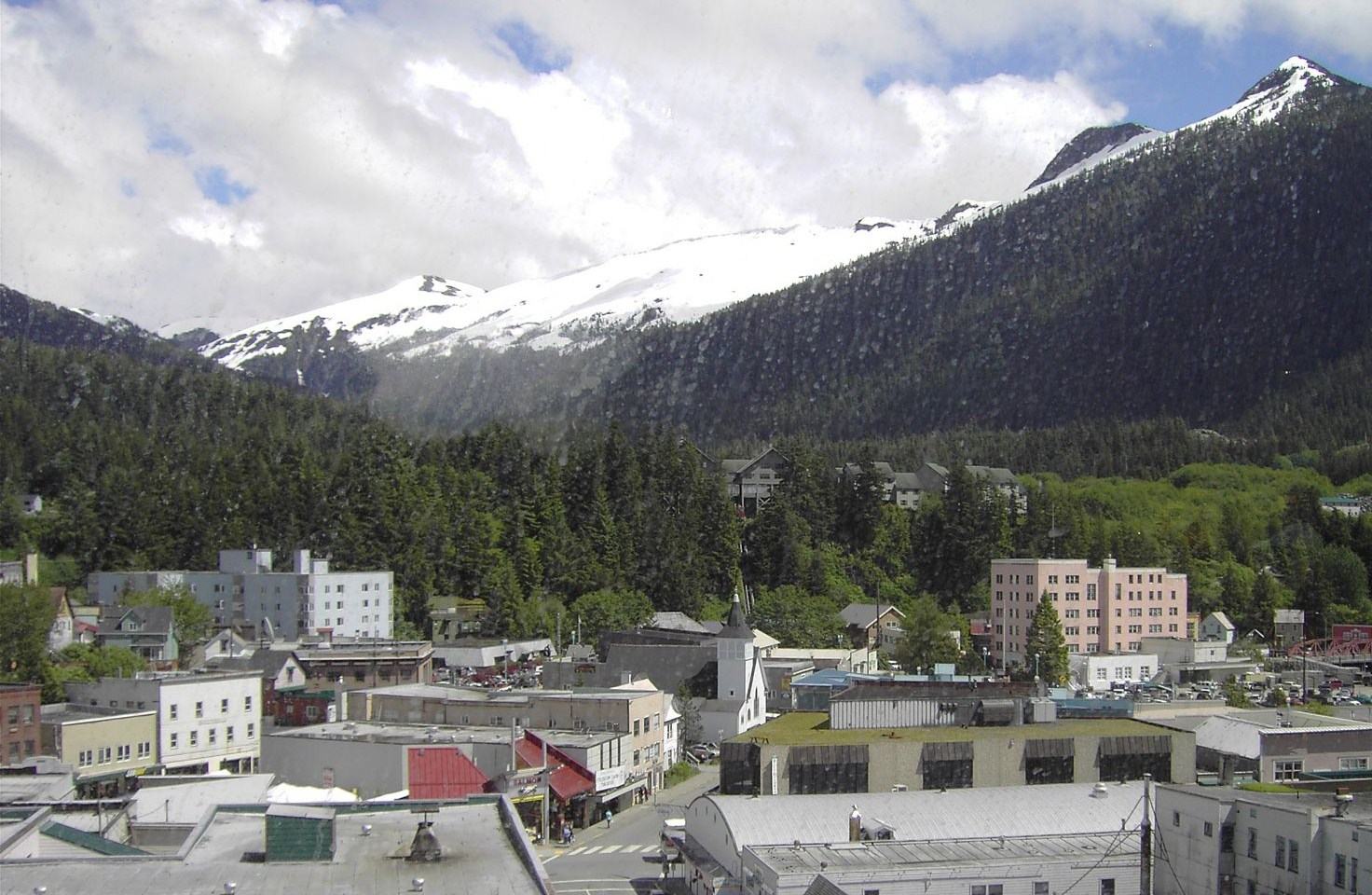 A City surrounded by mountains.